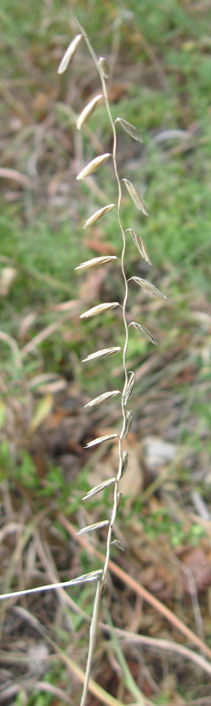 Bouteloua curipendula, Powell County, Kentucky northwest of Kueshner Branch on barren ridge opening.